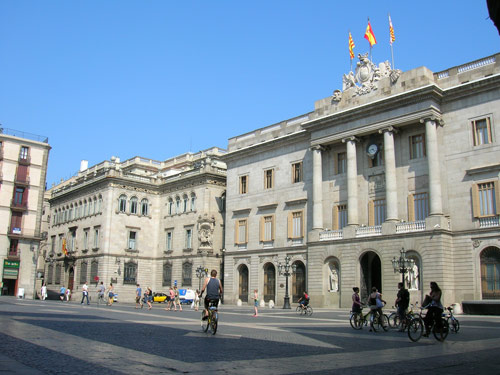 At the left, Caixa de Barcelona building. At the right, Ajuntament de Barcelona (town hall)